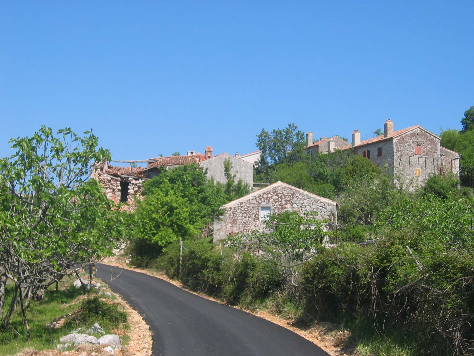 Filozići, village on the island Cres, Croatia